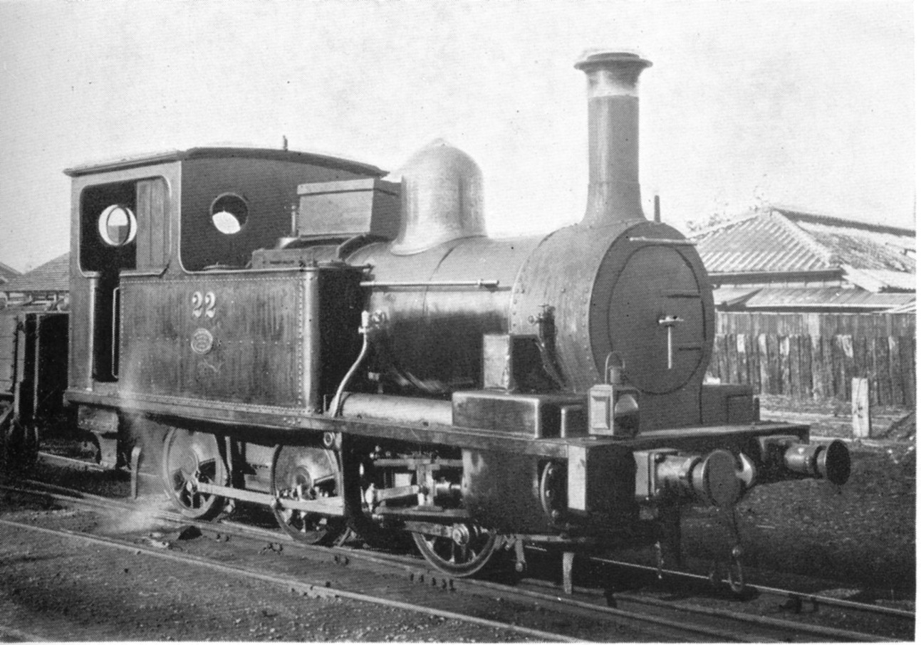 Japan Government Railway type 1100 steam locomotive